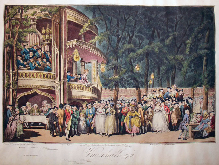 A concert in the Vauxhall Pleasure Gardens 1732